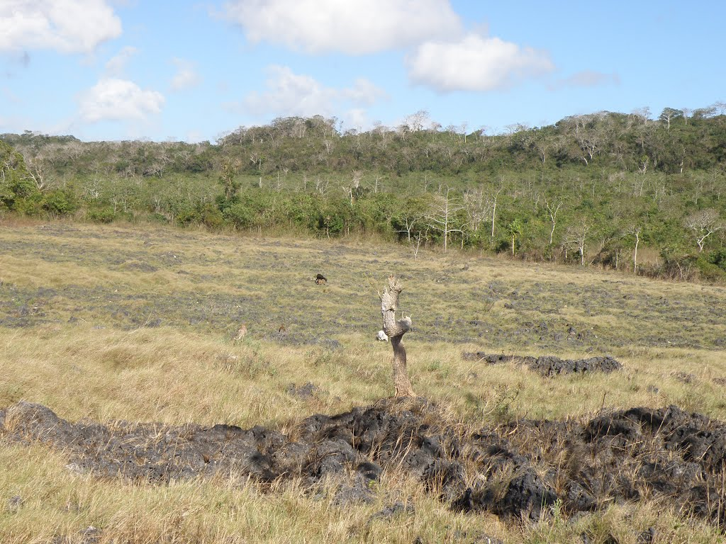 Secondary forest patches on Assalaino karst plateau at 500 m, suco Com , Lautem, Timor-Leste